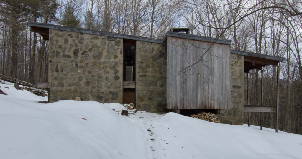 Chalet designed and built by Eliot Noyes, noted architect and industrial designer, located near Killington, Vermont.